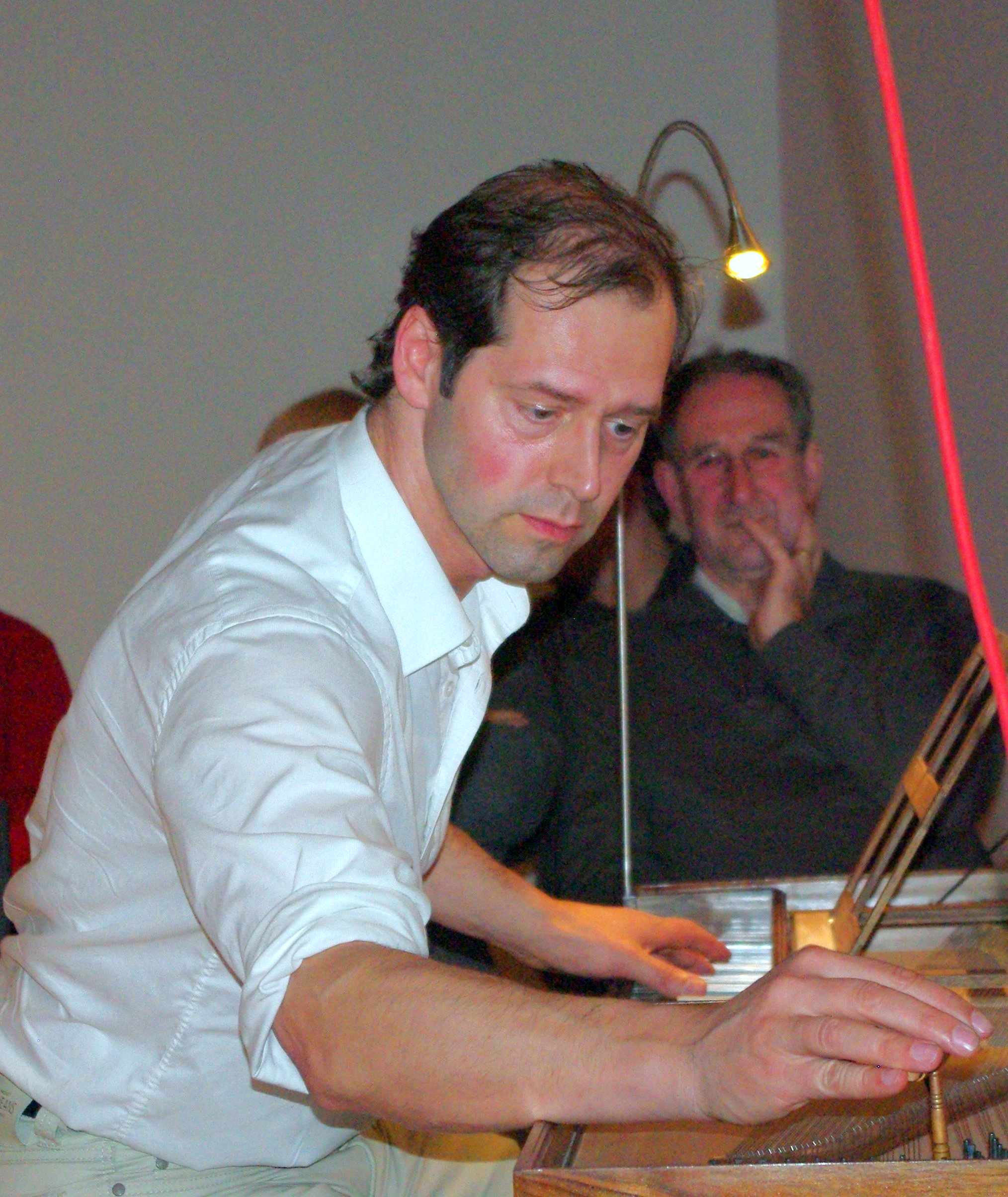 Joris Potvlieghe, tuning one of his clavichords during a concert In Leuven, Belgium, on March 16, 2012